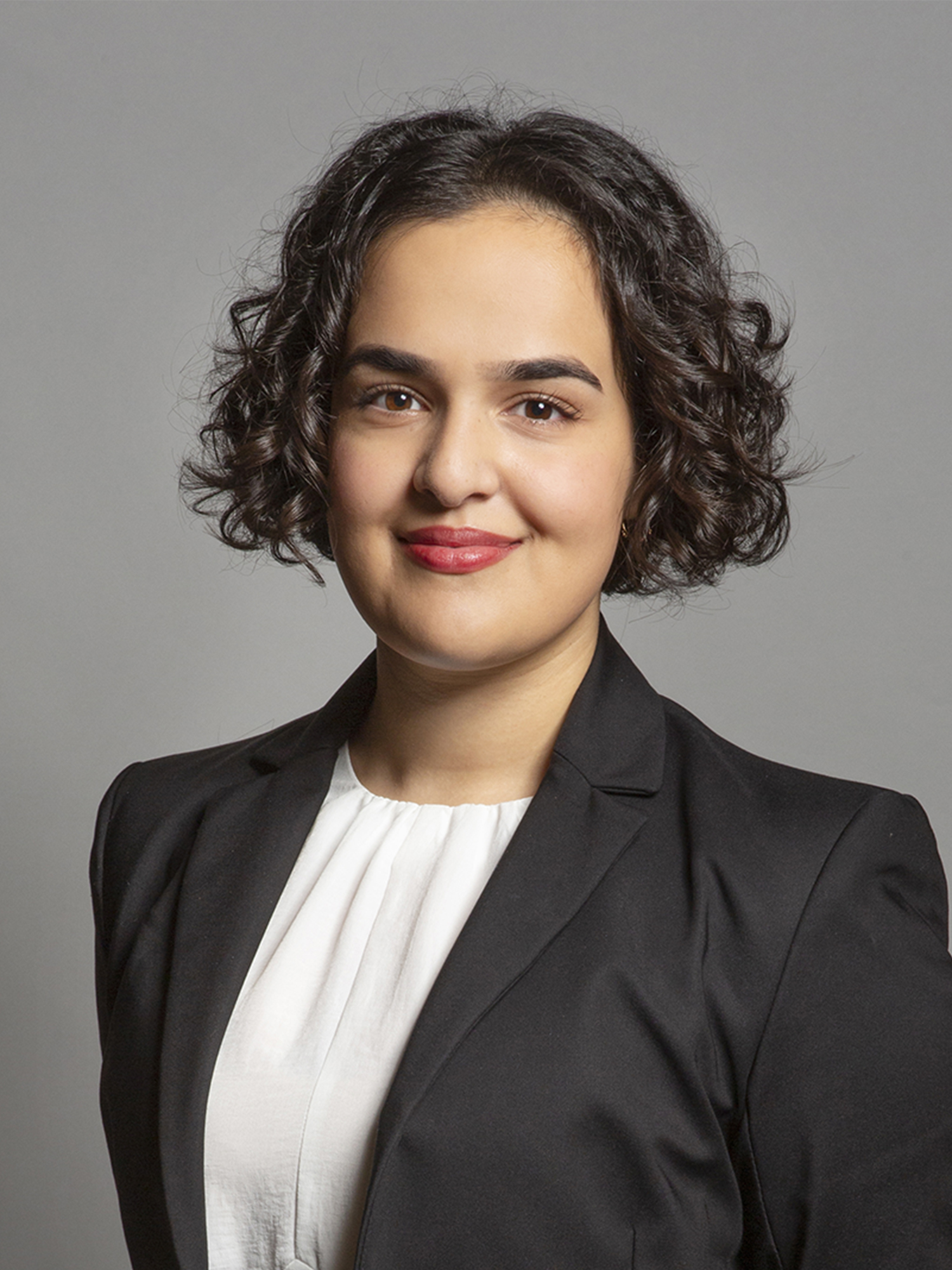 Official portrait of Nadia Whittome MP 3×4 portrait of Nadia Whittome